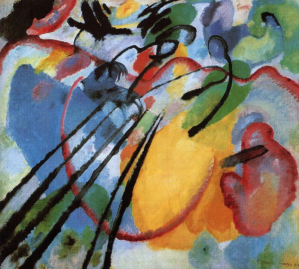 Improvisation 26